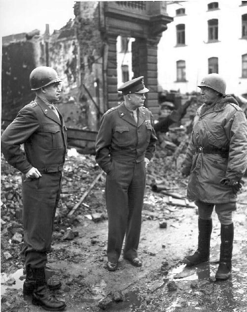 General Omar Bradley, General Dwight Eisenhower, and General George Patton, all graduates of West Point, survey war damage in Bastogne, Belgium